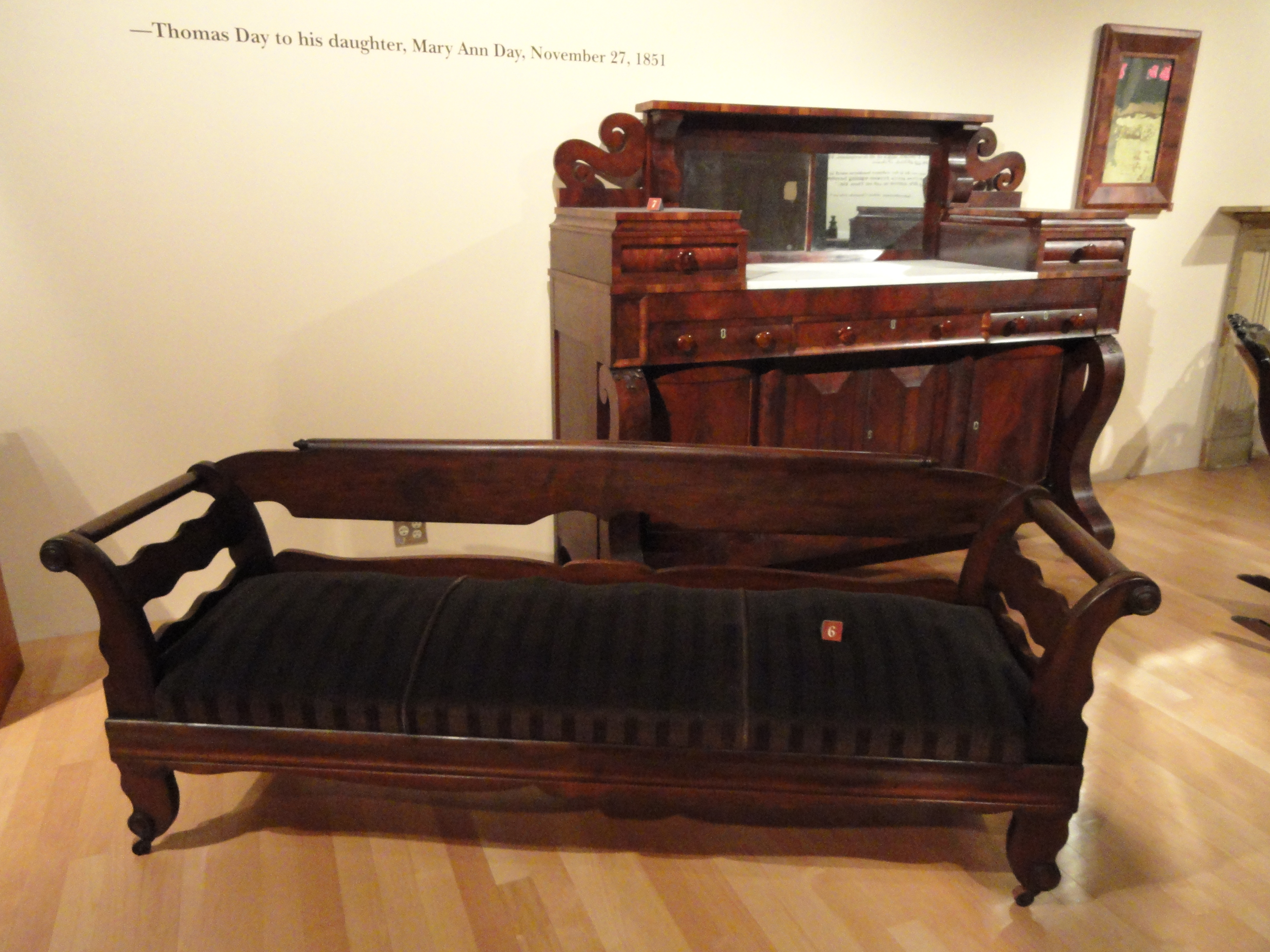 Settee and sidebord, furniture exhibit in the North Carolina Museum of History, Raleigh, North Carolina, USA.